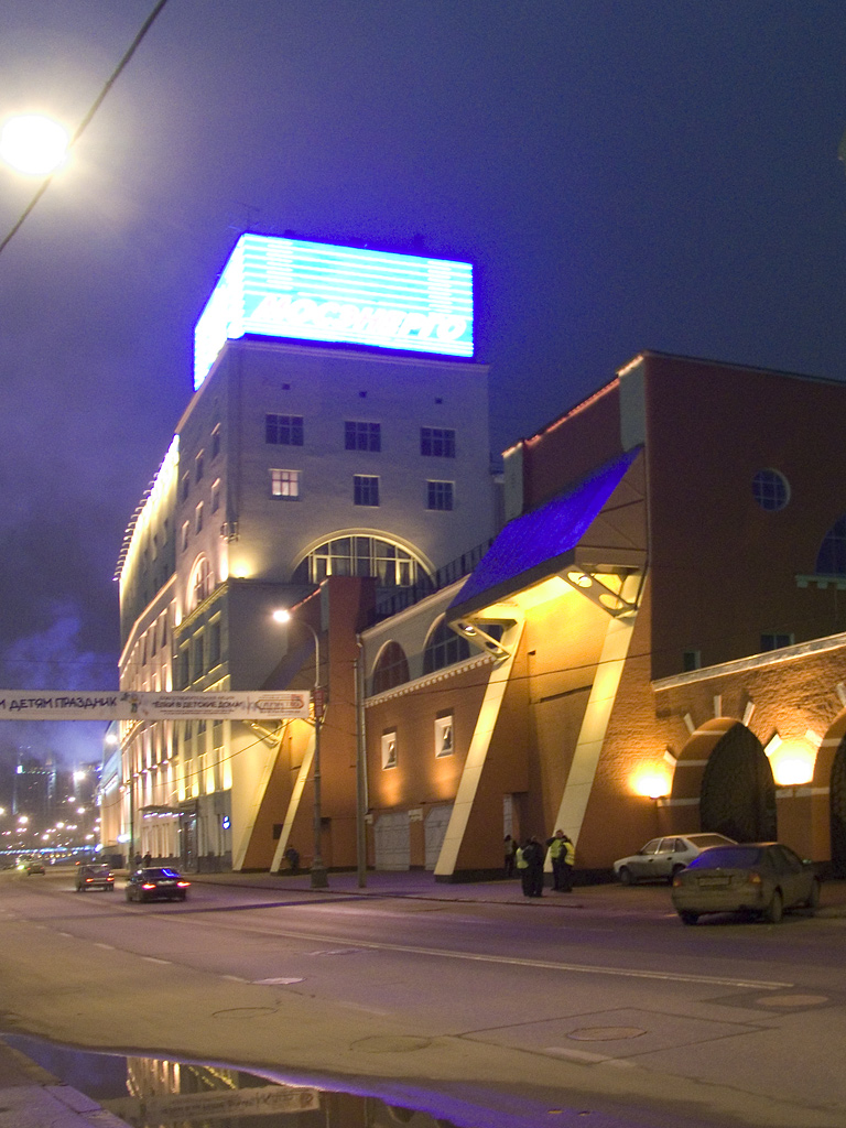 Moscow electrical powerplant in Raushskaya Embankment (est. 1896), background: Mosenergo offices.